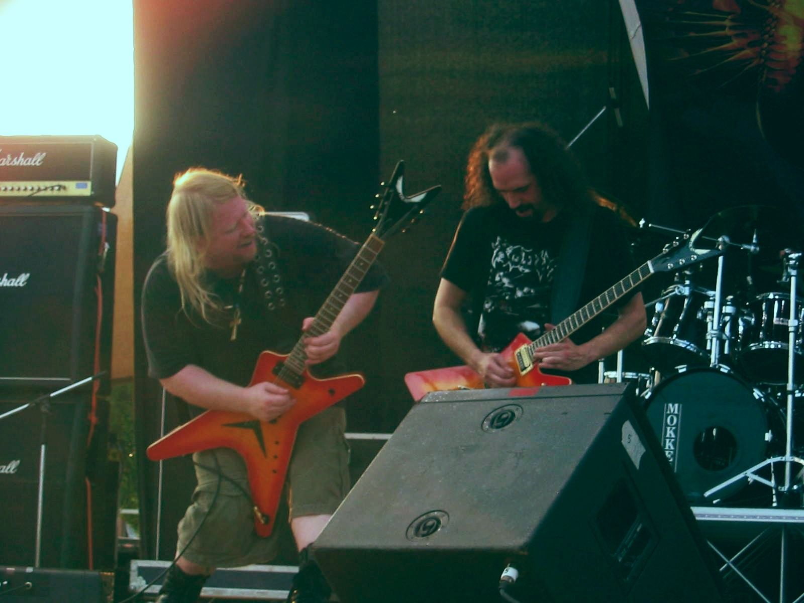 Dallas Toler-Wade and Karl Sanders of the band Nile at the Evolution Festival 2006.